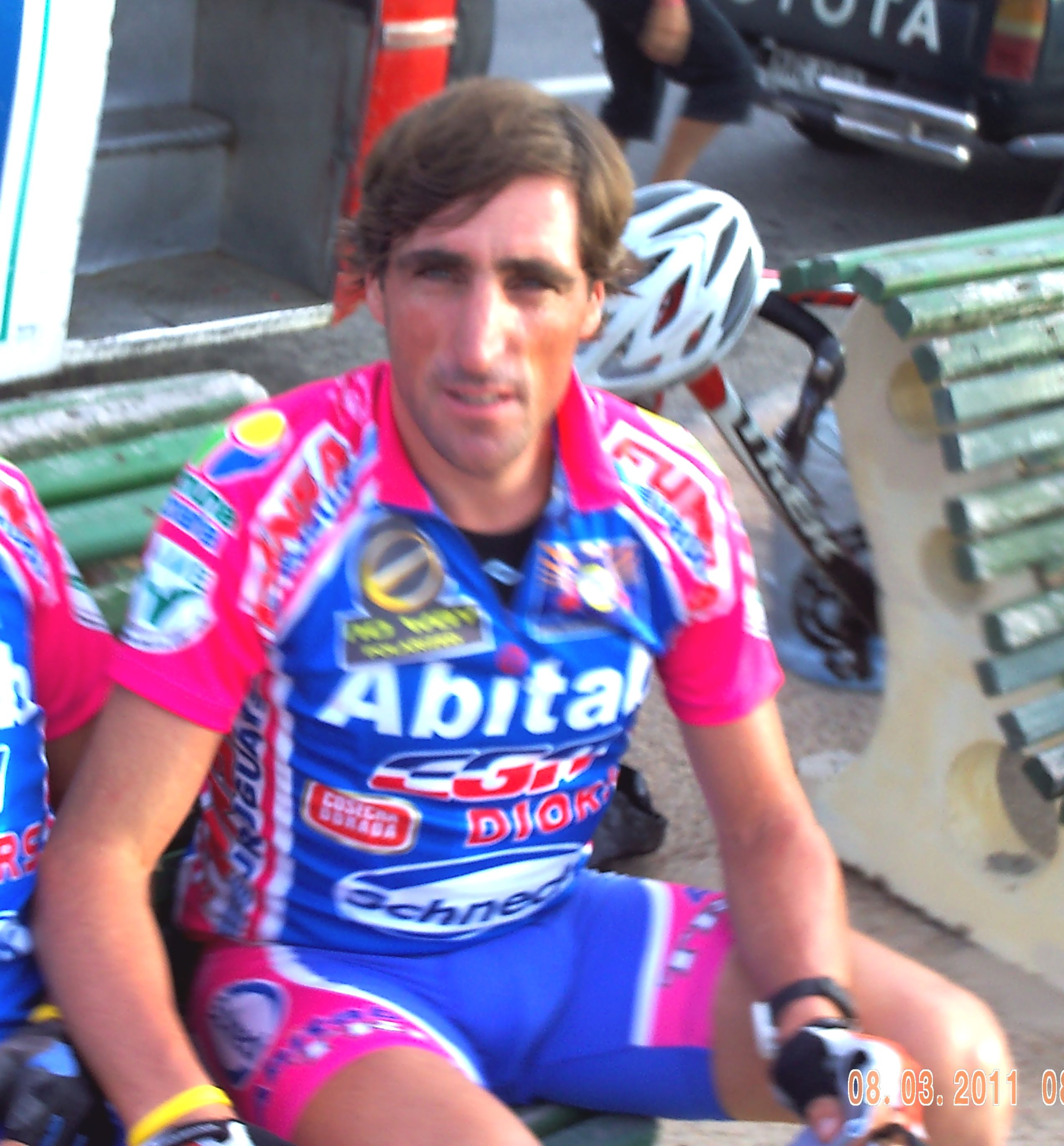 Hernán Cline, rider of the team Alas Rojas de Santa Lucía, Uruguay